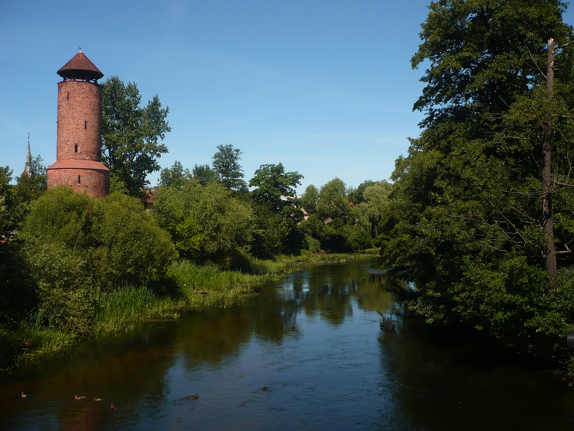 Rega river from bridge in Gryfice, Poland